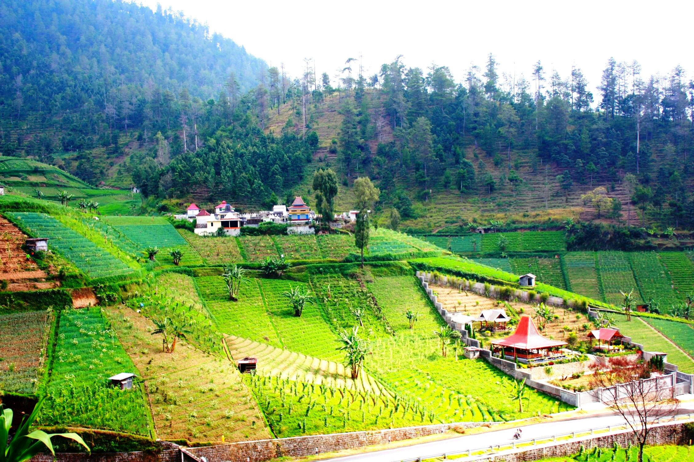 This photo show the traditional plantation in terrace because Java have got much hill and mountain , what human must to sculpture for have much production of any vegetable, rice, Tobacco, etc